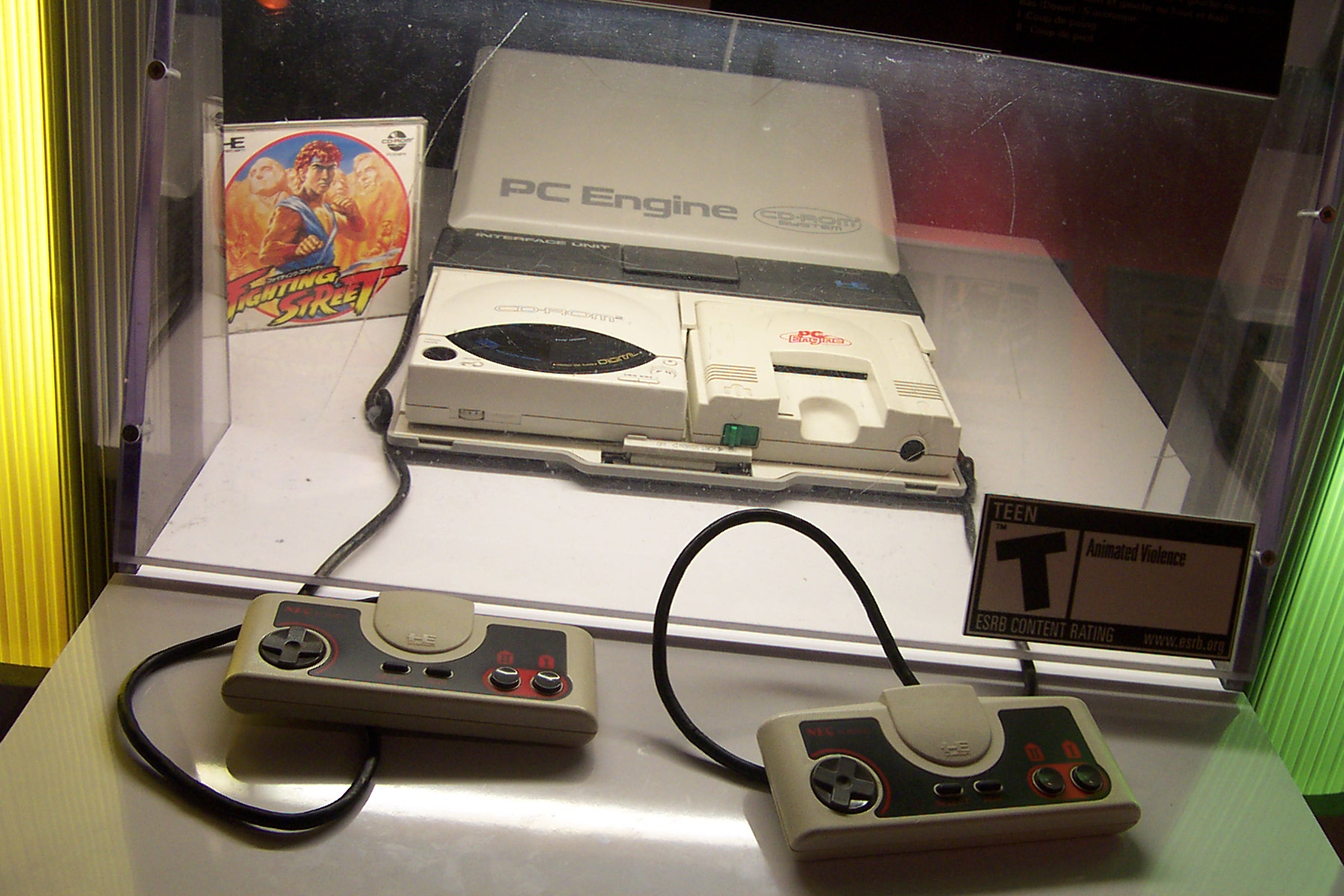 The PC Engine was the Japanese version of the TurboGrafx 16. I didn't see an explanation for why the American versions weren't represented.